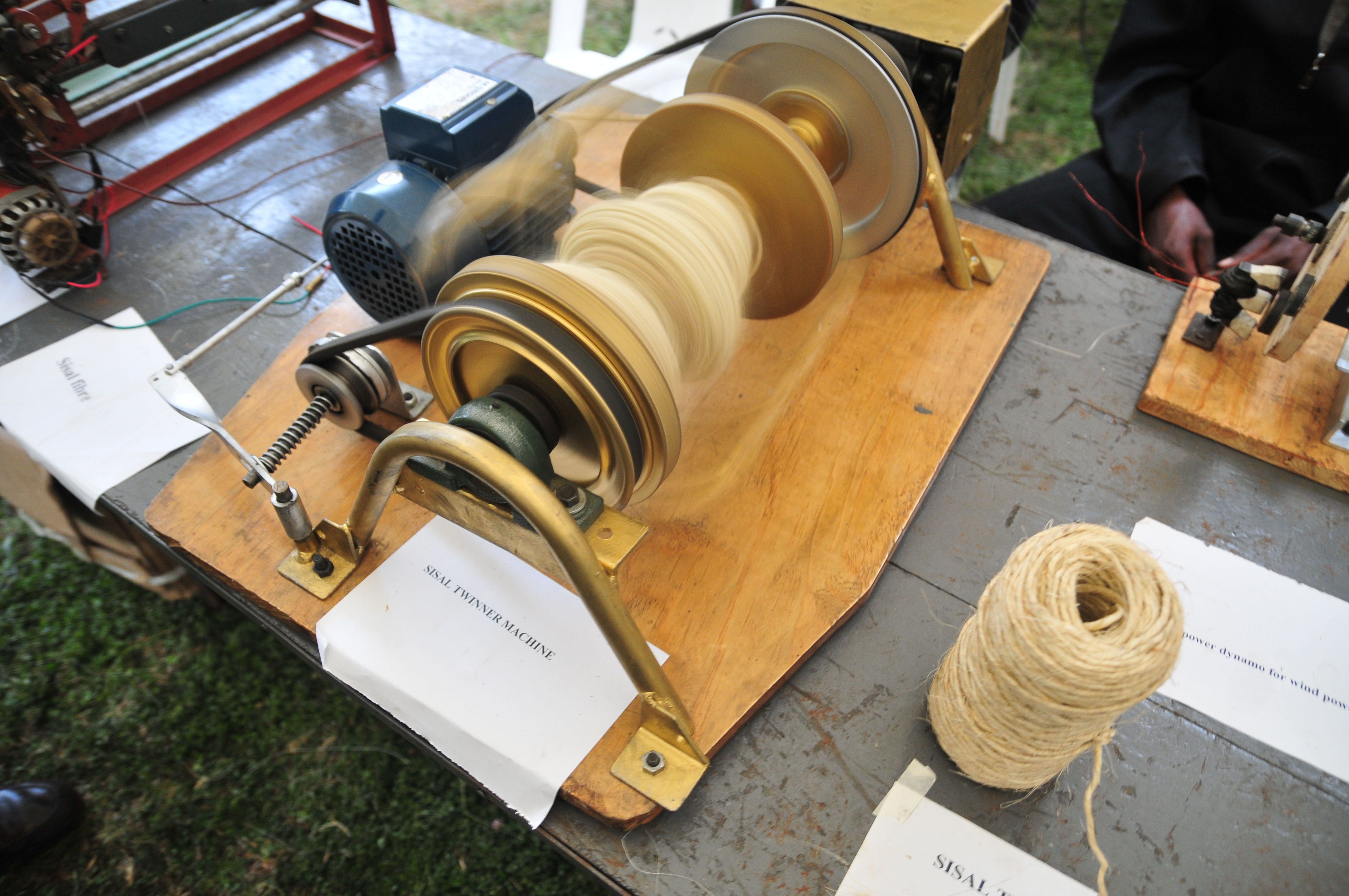 Make Faire Africa At Nairobi, kenya, August 2010